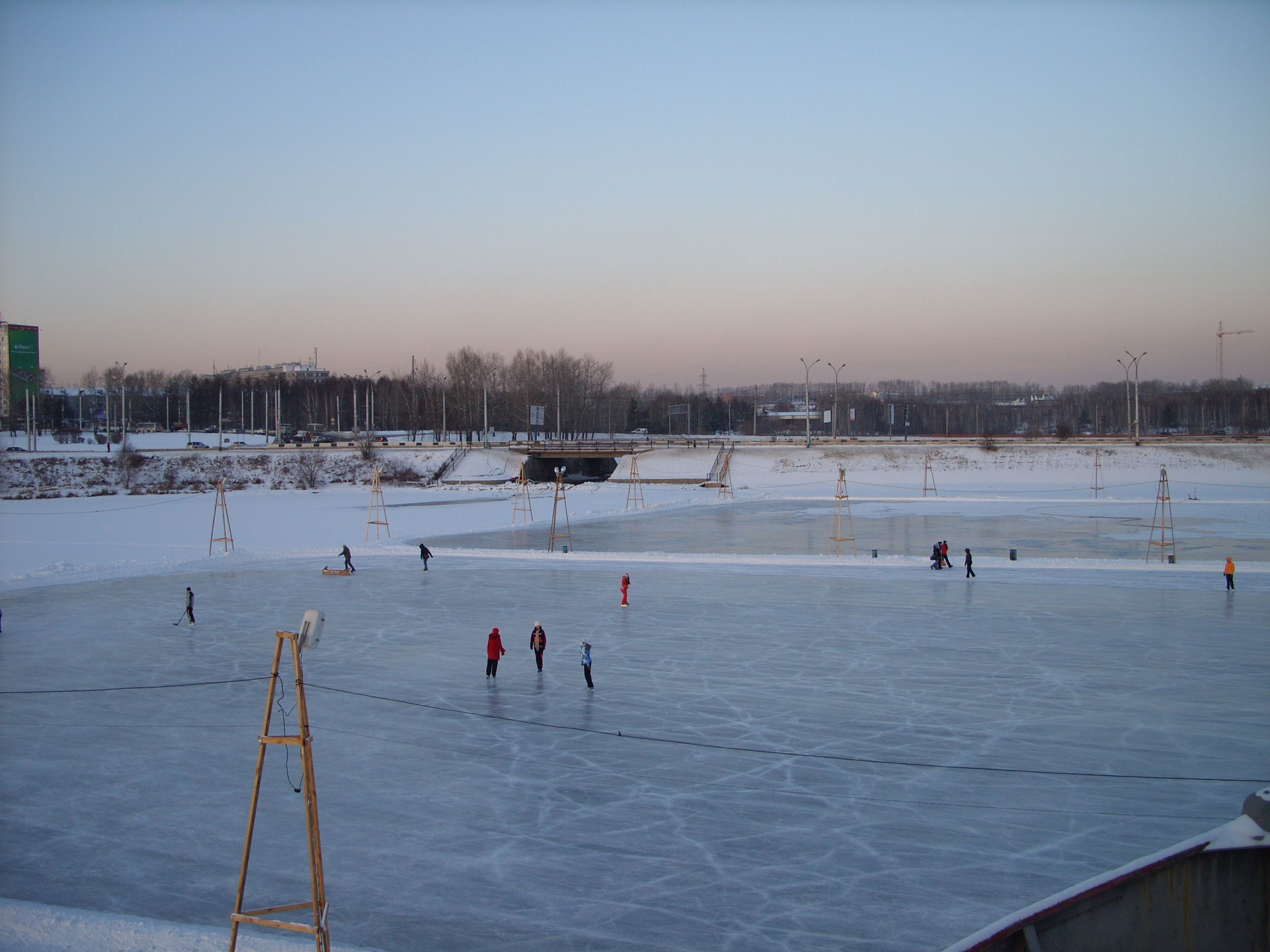 View from the icebreaer and museum ship Angara at its mooring in Irkutsk